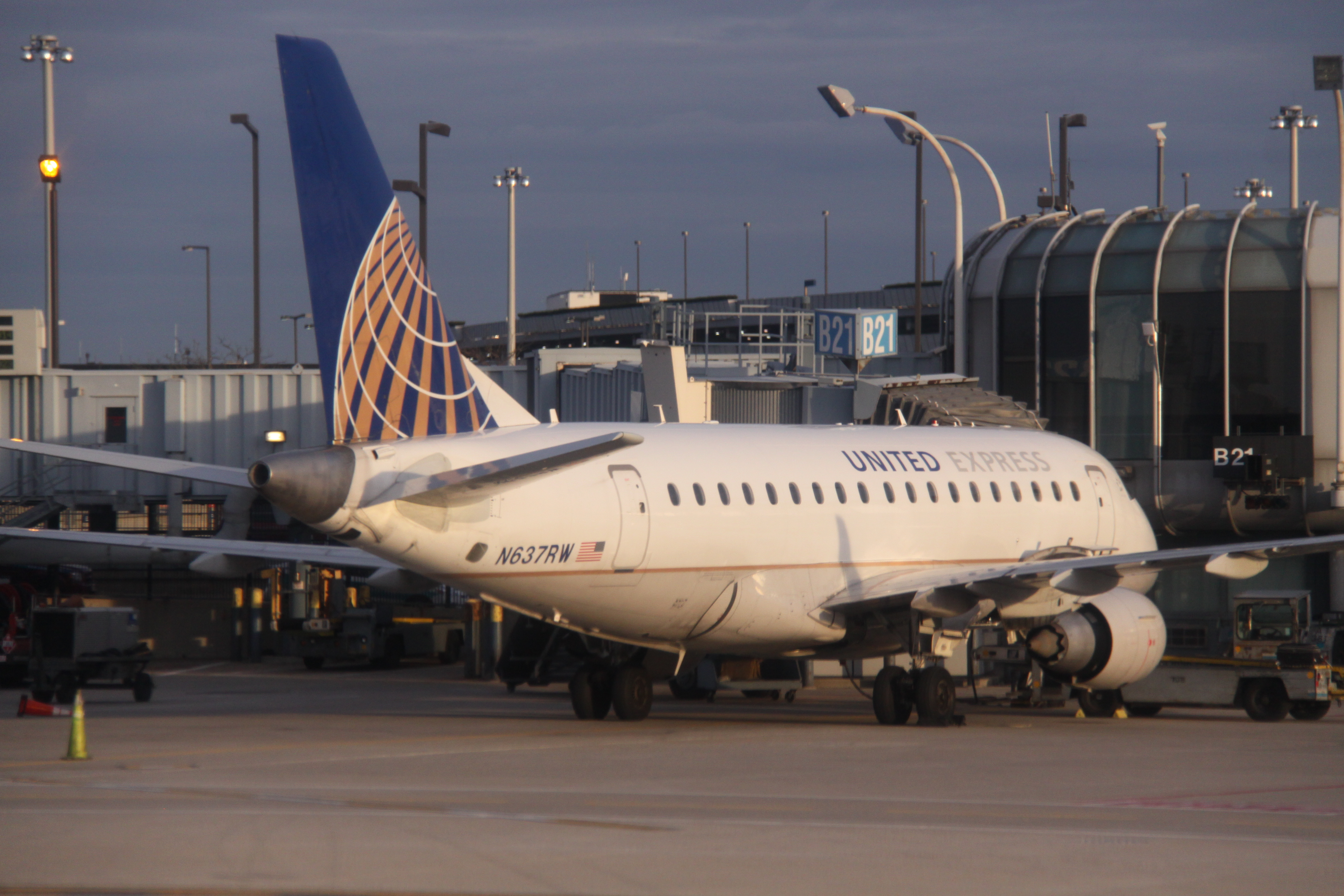 At Chicago O'Hare